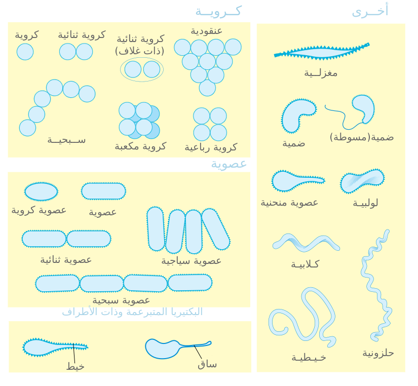 Basic morphological diferences between bacteria. The most often found forms and their asociations.